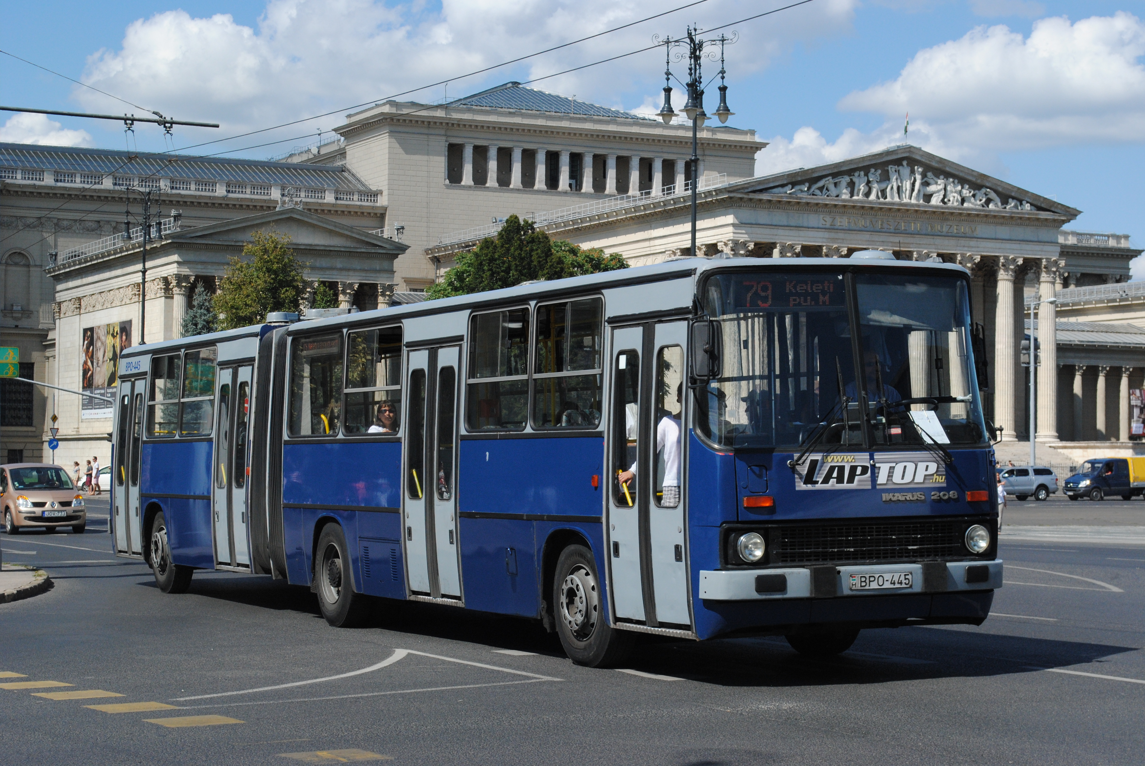 Ikarus 280 bus in Budapest operating on line 79 (trolleybus replacement, BKV)